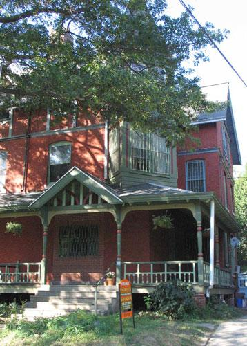 Typical Queen Anne style house in West Philadelphia, located on 48th near Springfield Ave